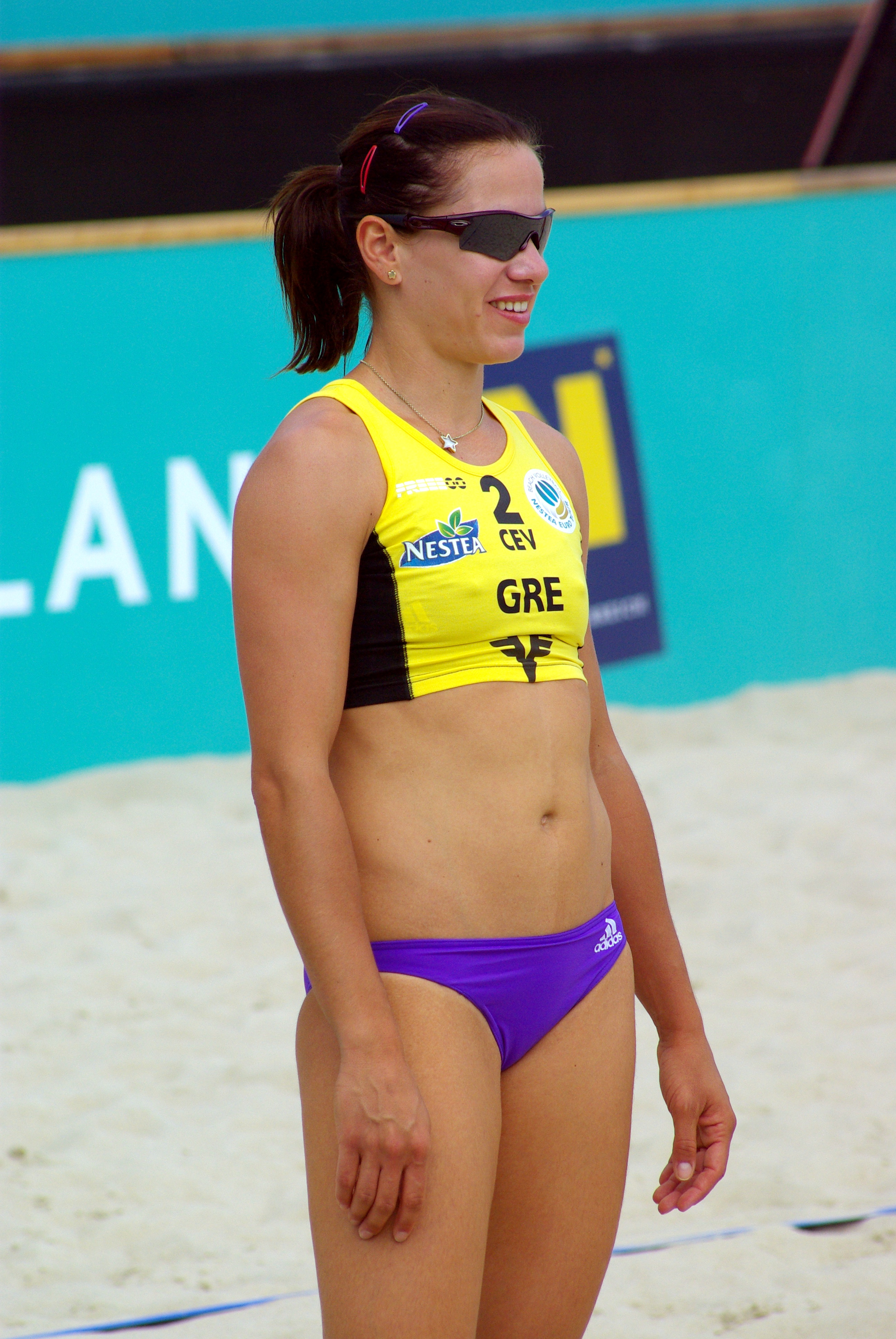 Greek Beach volleyball player Maria Tsiartsiani at the European Championship Tour 2008 Austrian Masters in St. Pölten.